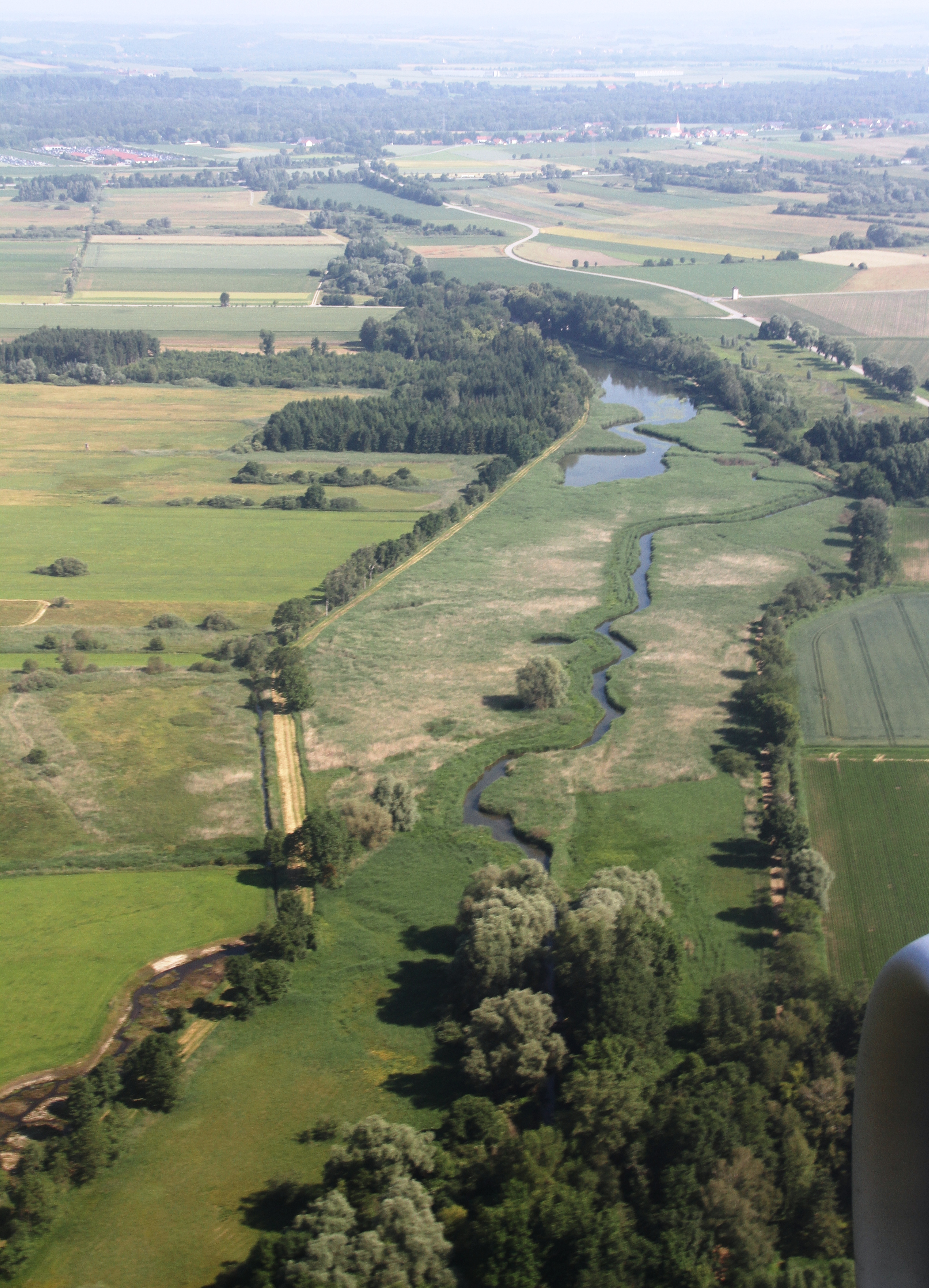 Aerial view from the Erding landkreis (county), just northeast of Munich, Bavaria (Germany)